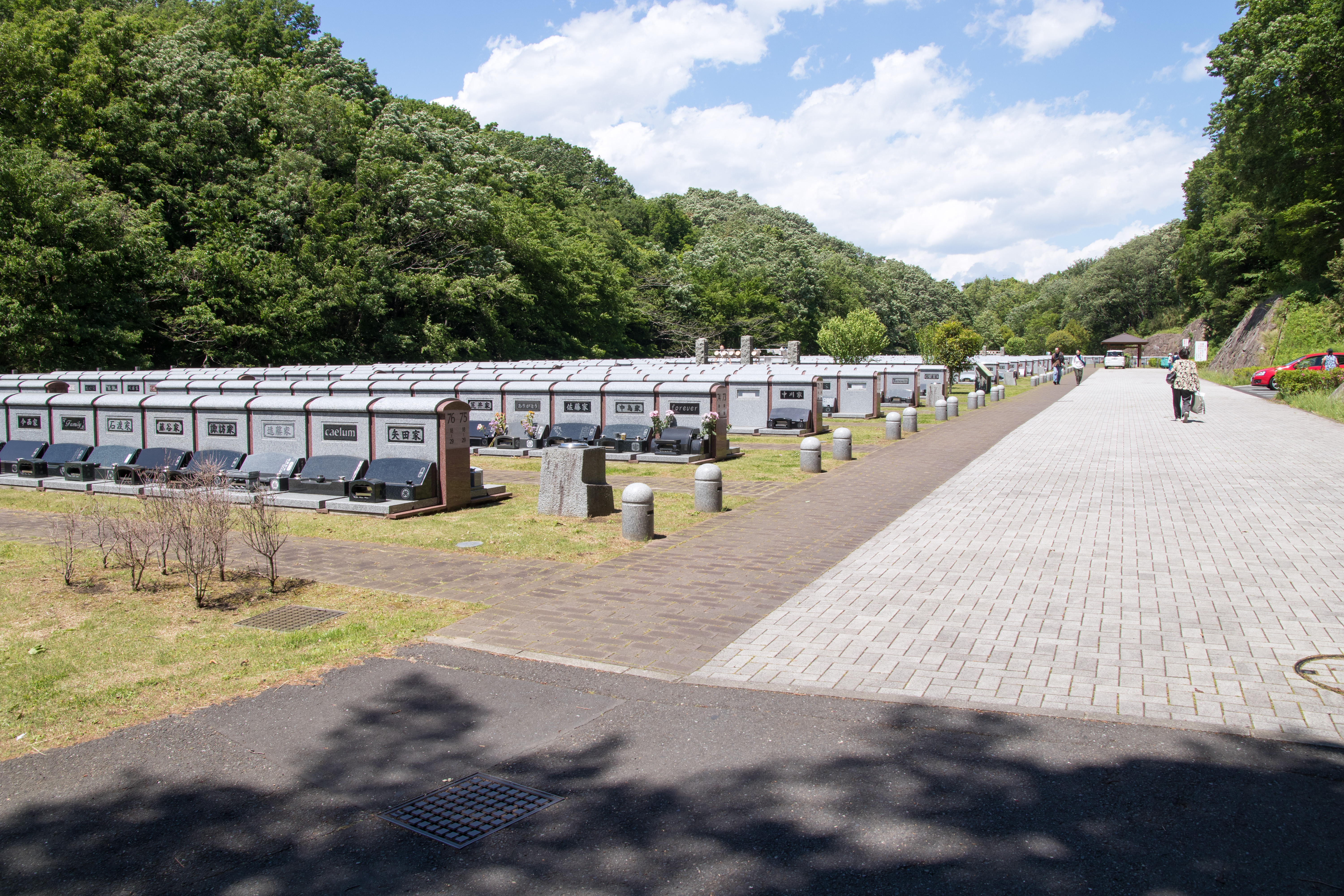 Hayano Cemetery Park, Kawasaki City, Kanagawa Pref, Japan